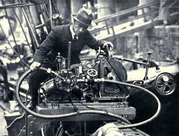 Engineer Alexander Kerr examines the Lucas deep-sea sounding machine (Shackleton-Rowett Expedition)